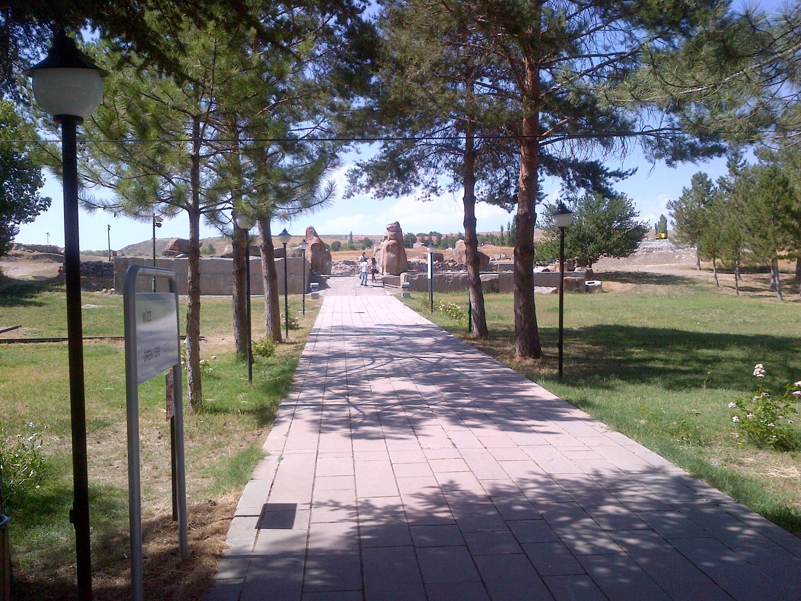 Sphinx Gate, Alacahöyük, Turkey